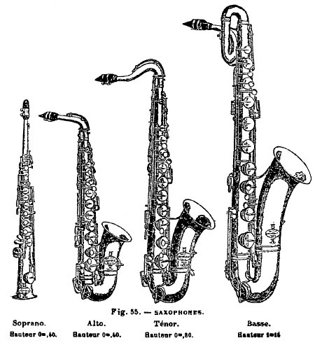 Saxophones